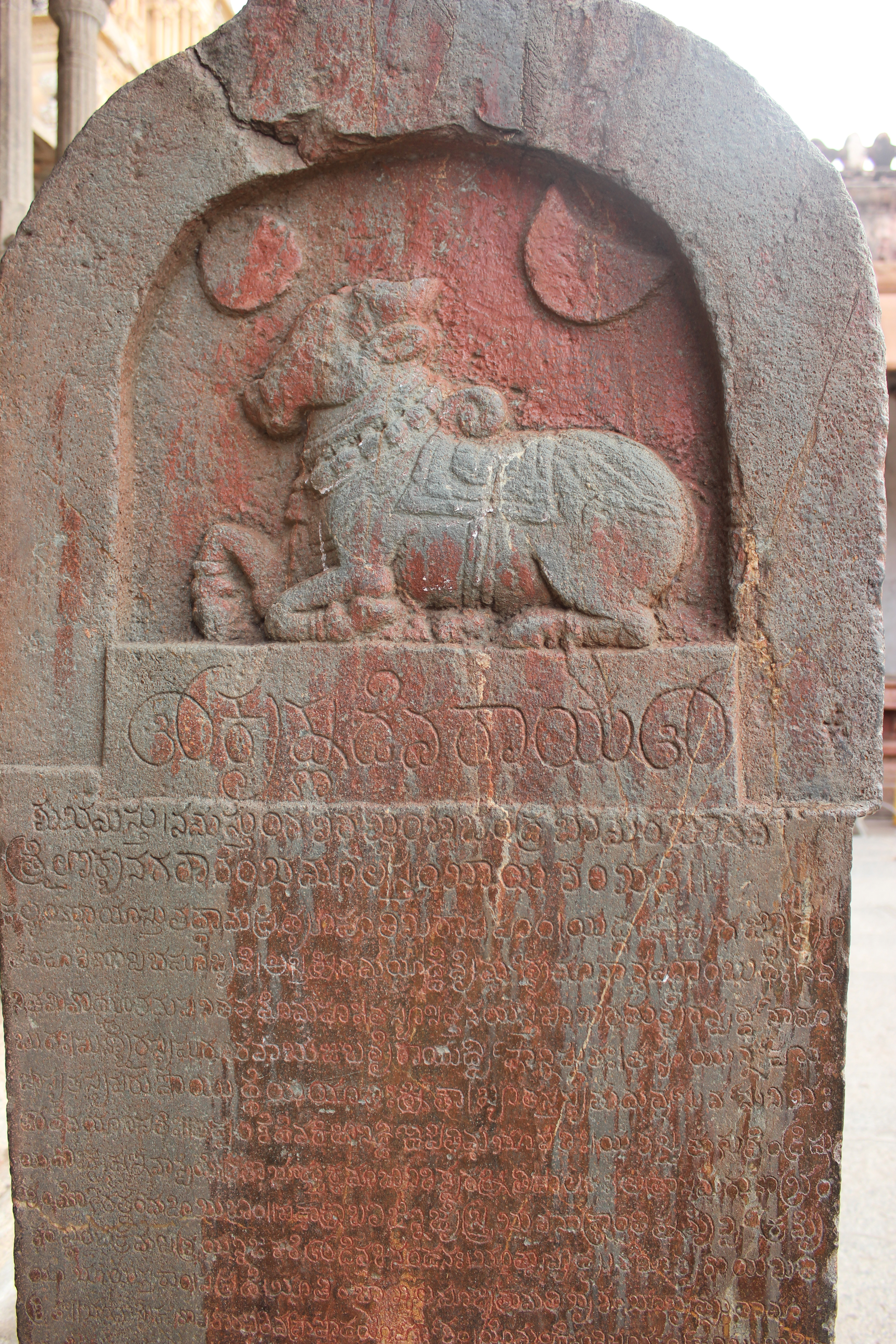 This photograph of a Kannada language inscription (1509 A.D.) of King Krishnadeva Raya was taken by me at the Virupaksha temple at Hampi, a UNESCO world heritage site in Bellary district, Karnataka state, India